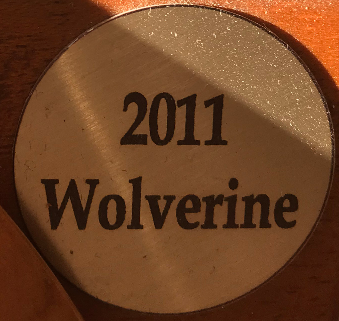 Patch on the Trophy